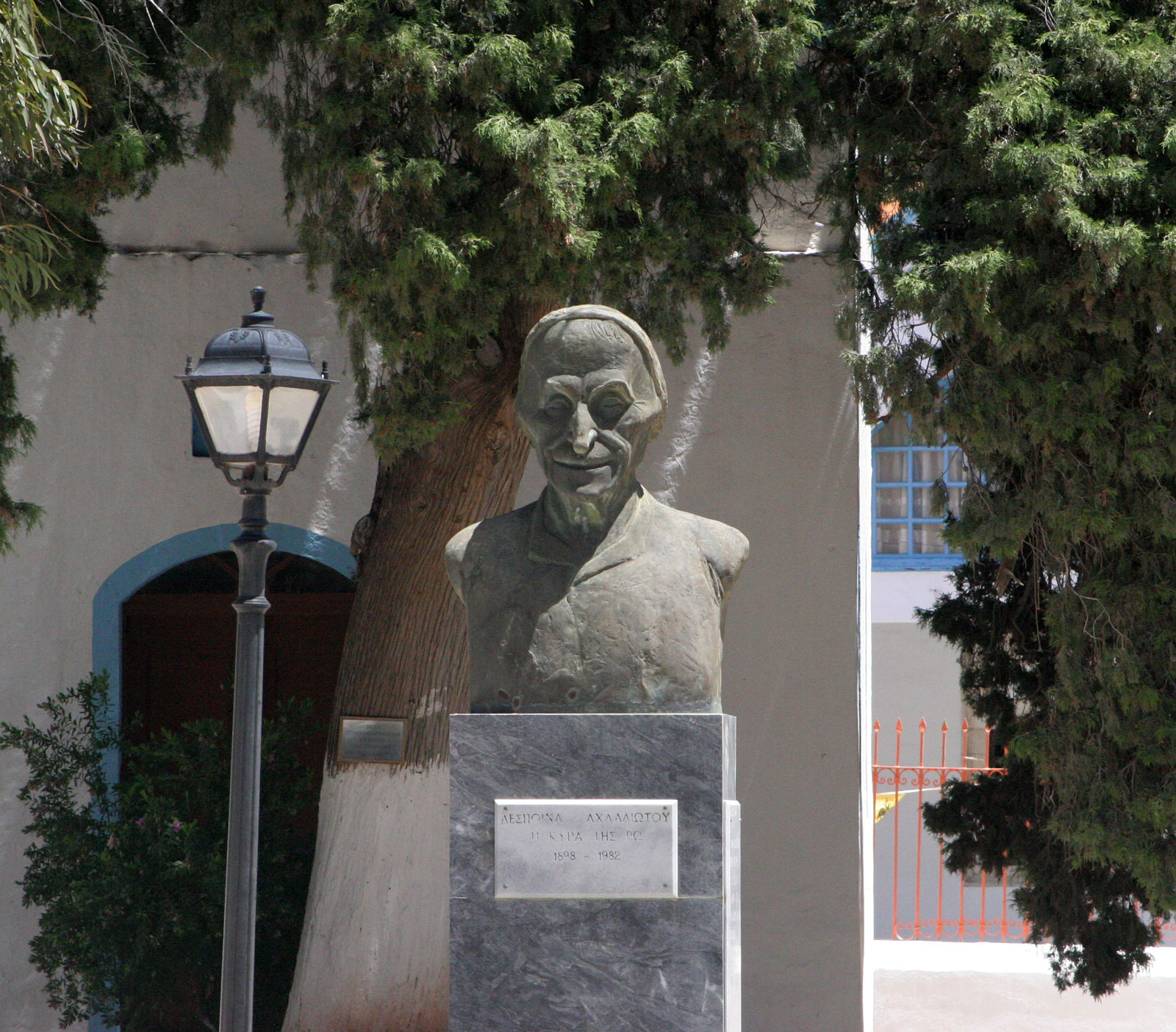 A monument of Despina Achladioti on Kastellorizo Island